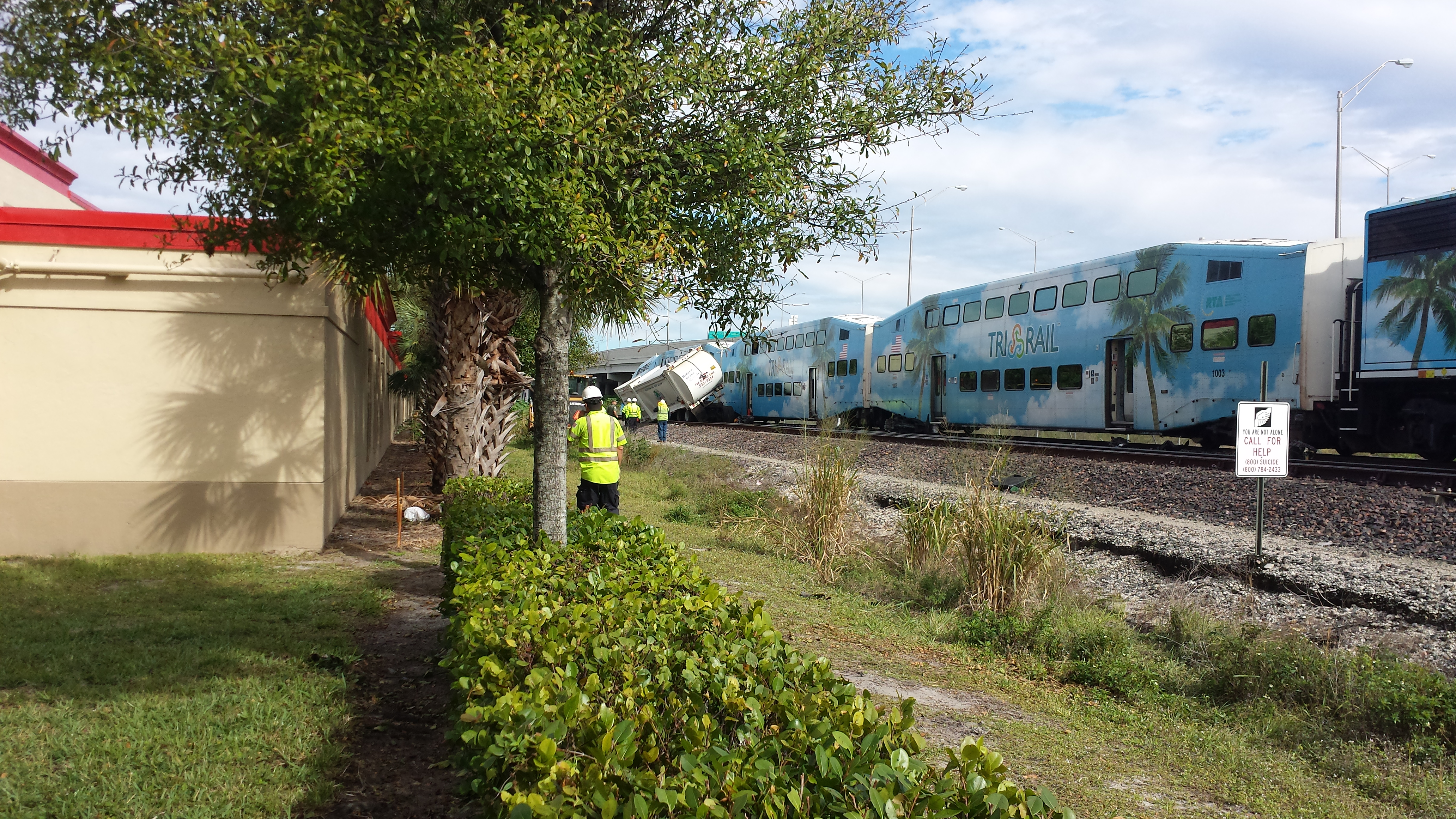 The back end of the garbage truck sitting on Track 1. The cab of the truck was completely wiped off. Fortunately enough, the derailment did not wipe out any signals and most of the train stayed on the rails. Only 22 people with minor injuries and the garbage truck driver was out of harms way.